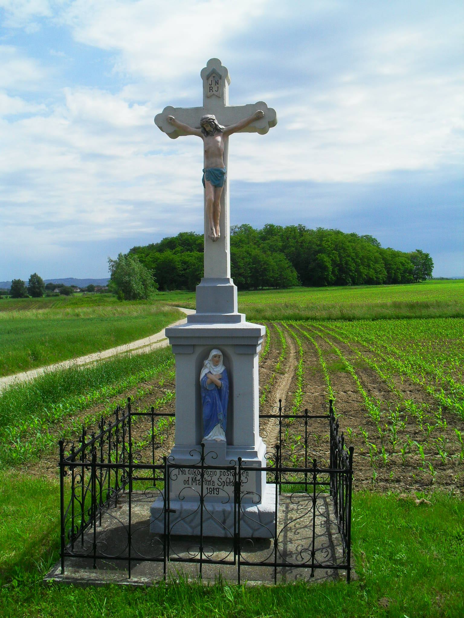 Cross of Martin Špolarič from 1919 near Hlapičina, Međimurje Croatia, with Kajkavian (Međimurian) inscription (1).